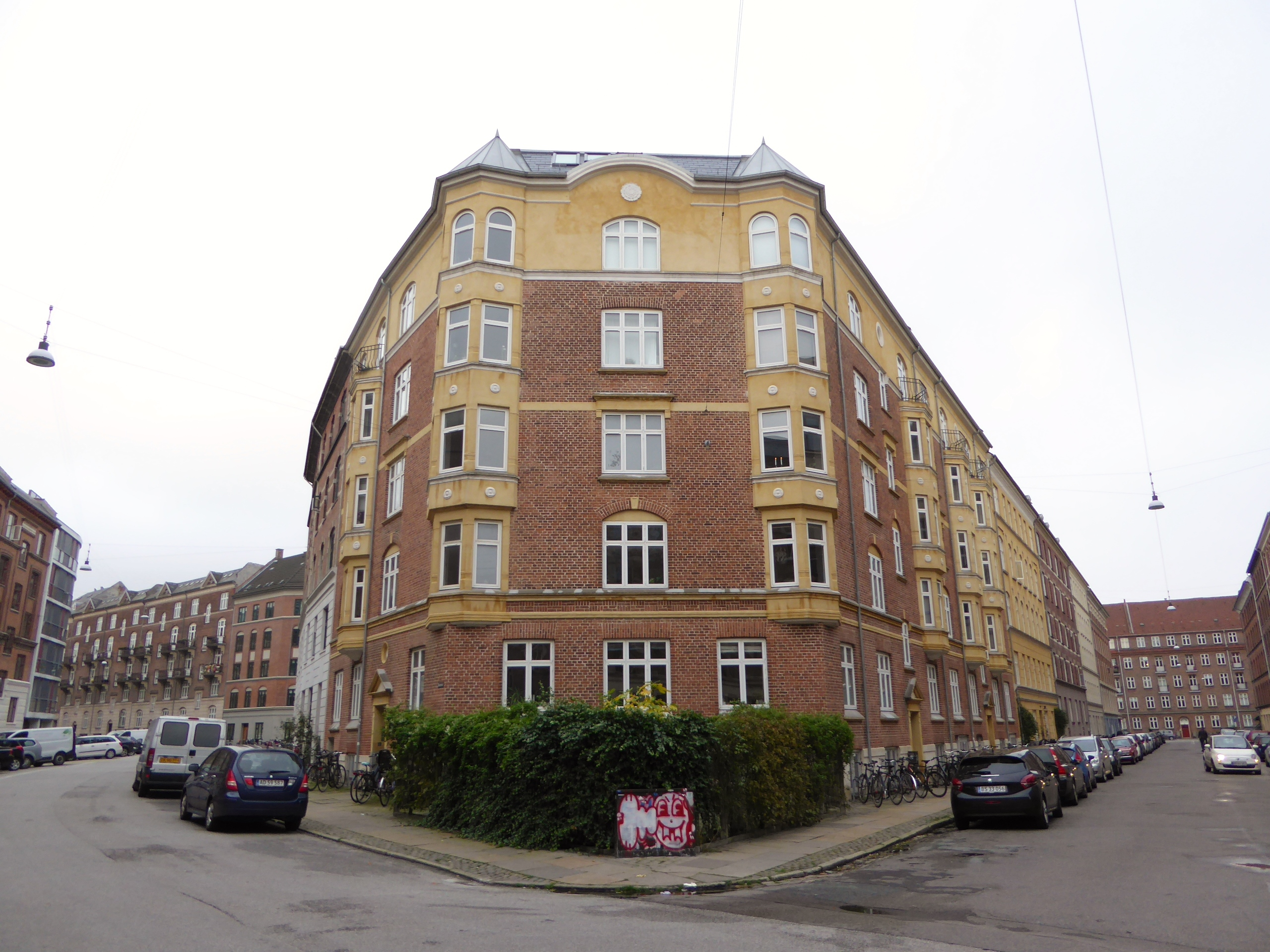 The housing cooperative A/B Thorsborg at the corner of Thorsgade and Frejasgade in Nørrebro in Copenhagen.